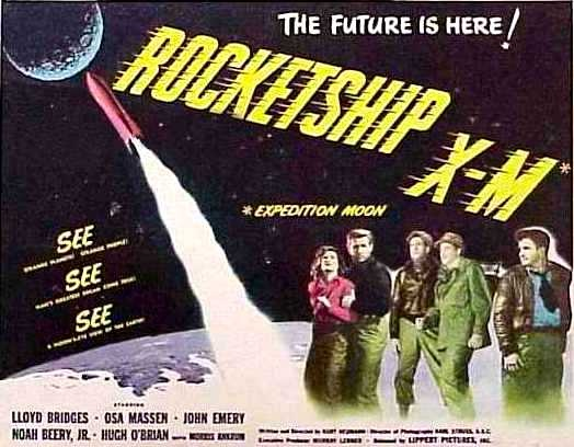 Low-resolution image of poster for the film Rocketship X-M (1950), featuring the cast